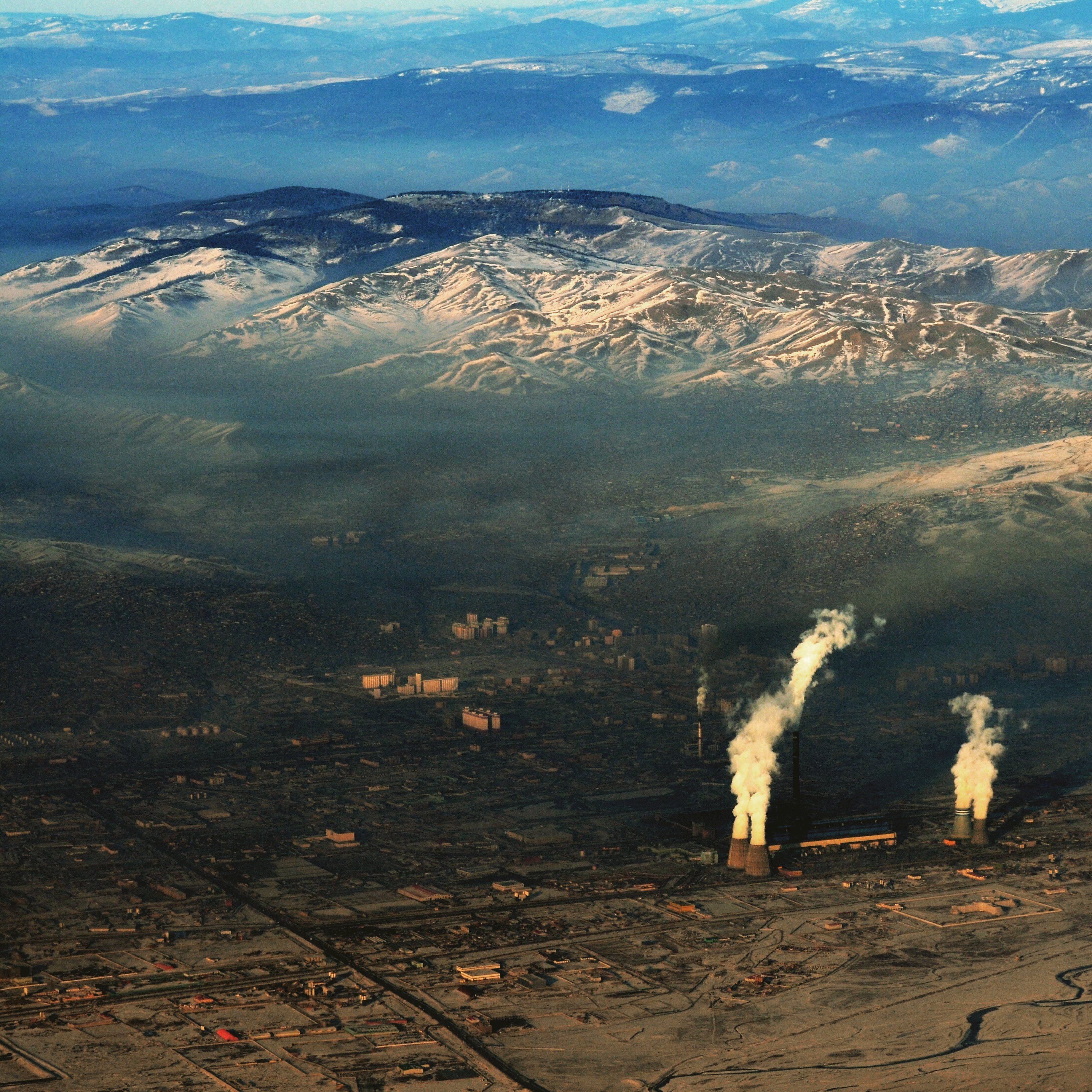 An aerial picture of ulaanbaatar mongolia